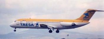 XA-TKN, the aircraft involved in the TAESA Flight 725